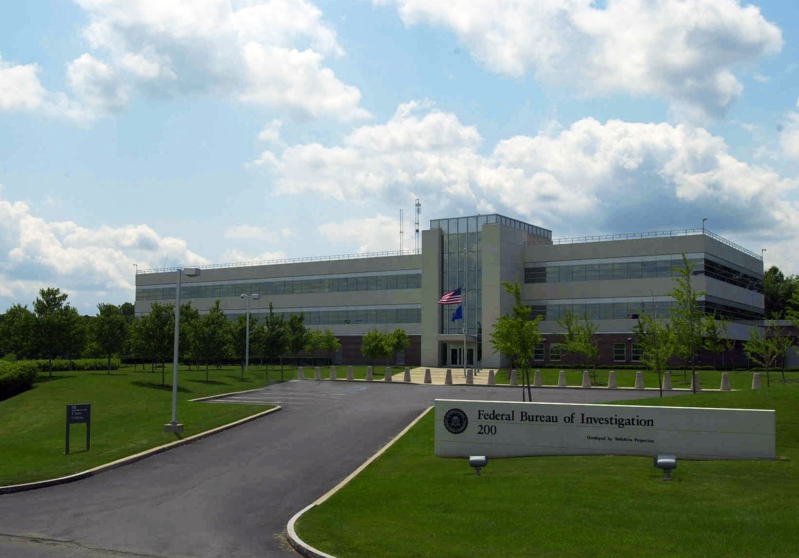 The FBI field office in Albany, New York has been housed in the building at 200 McCarty Avenue since approximately 1999.